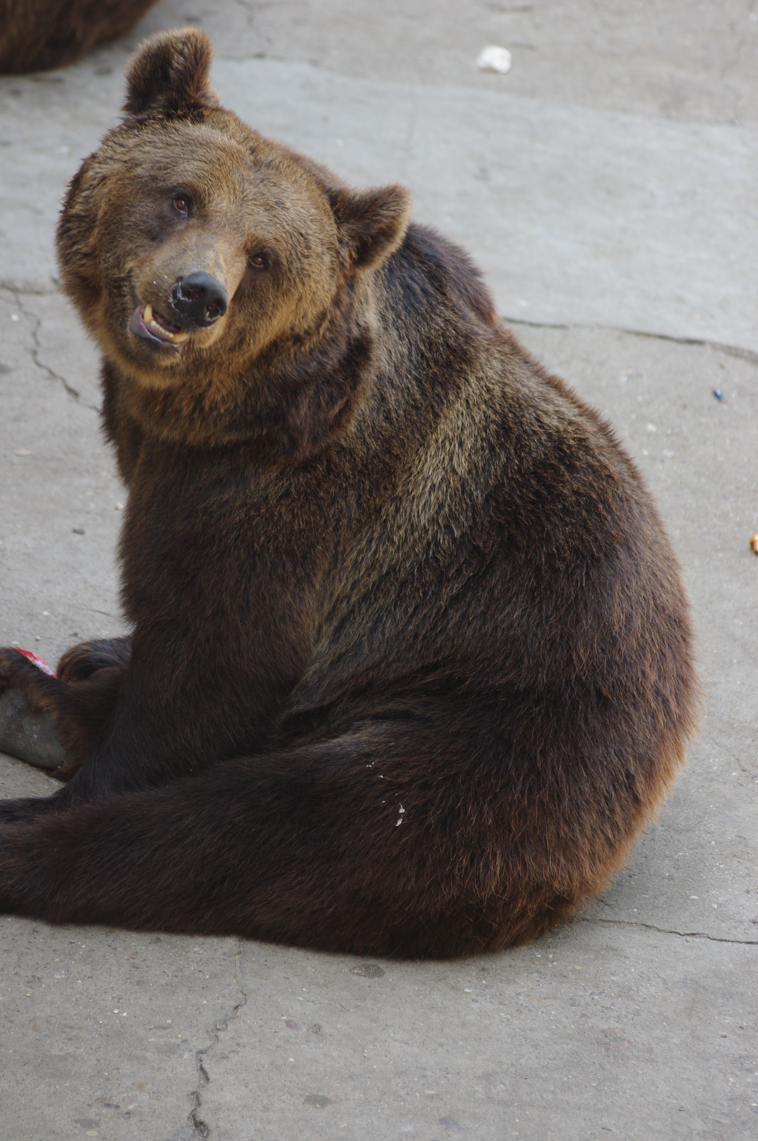 Ussuri brown bear (Ursus arctos lasiotus) in the Beijing Zoo